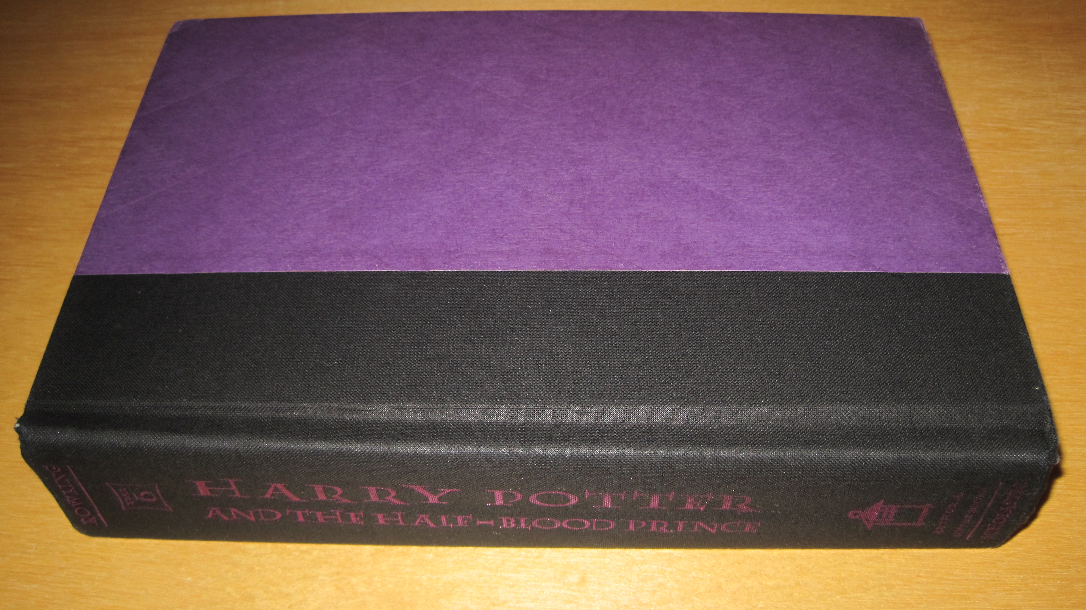 The first American edition of Harry Potter and the Half-Blood Prince published by Scholastic, without its dust jacket.